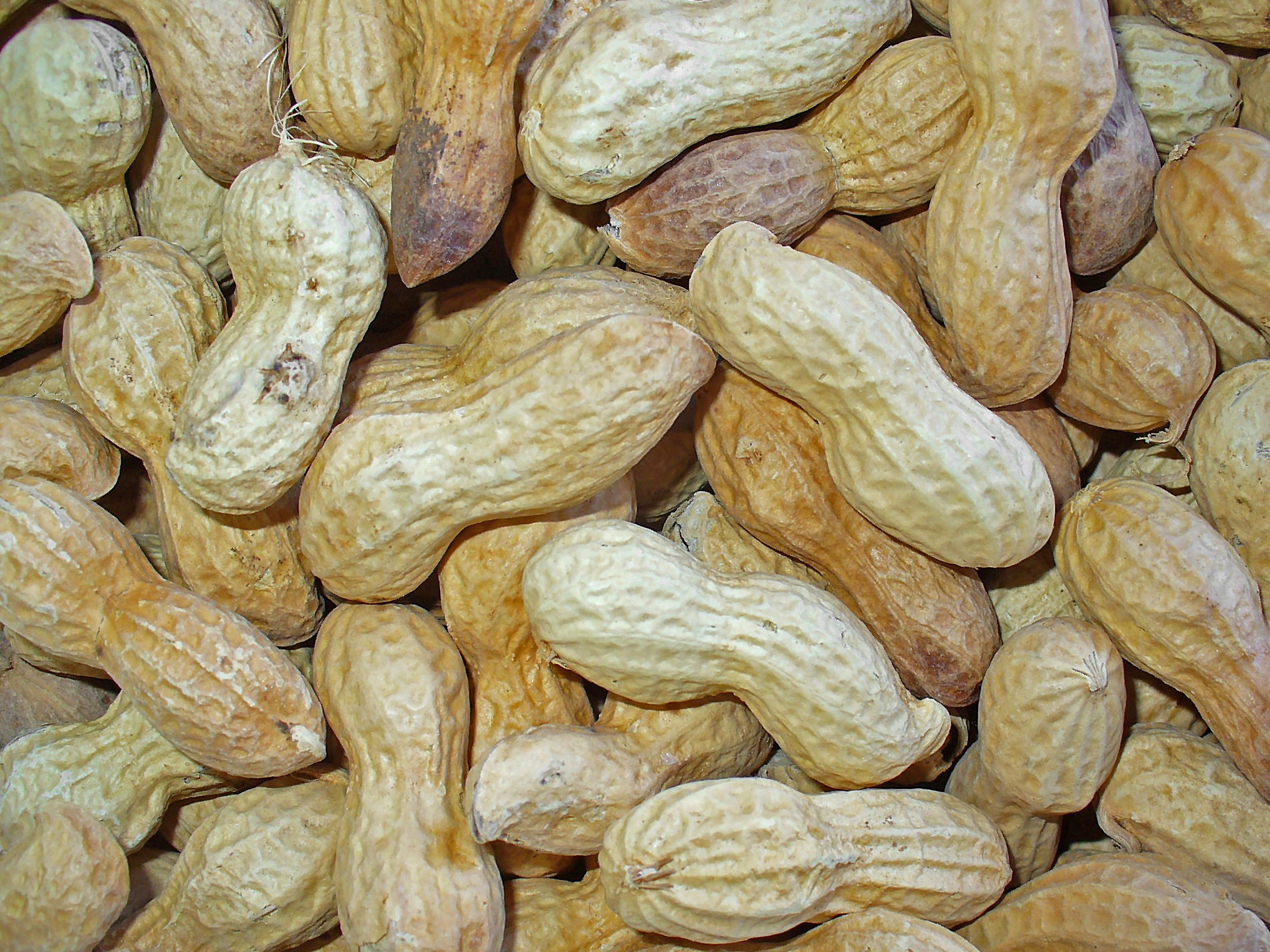 Arachis hypogaea, Fabaceae, Peanut, Groundnut, fruits. The dried fruits are used in homeopathy as remedy: Arachis hypogaea (Ara-h.)